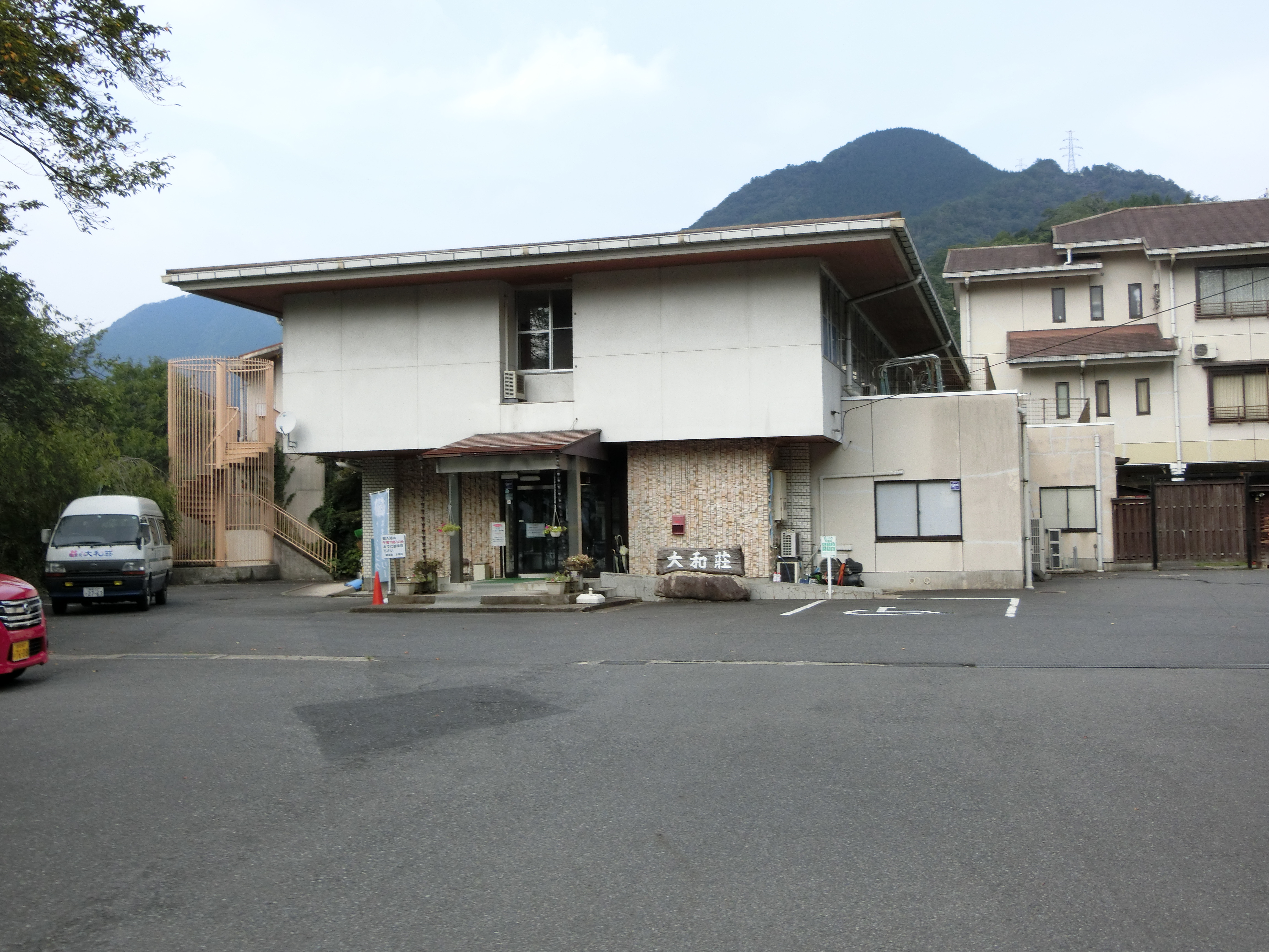 Yamato-so, The only hotel in Ushio Spa, located in Misato, Shimane Prefecture